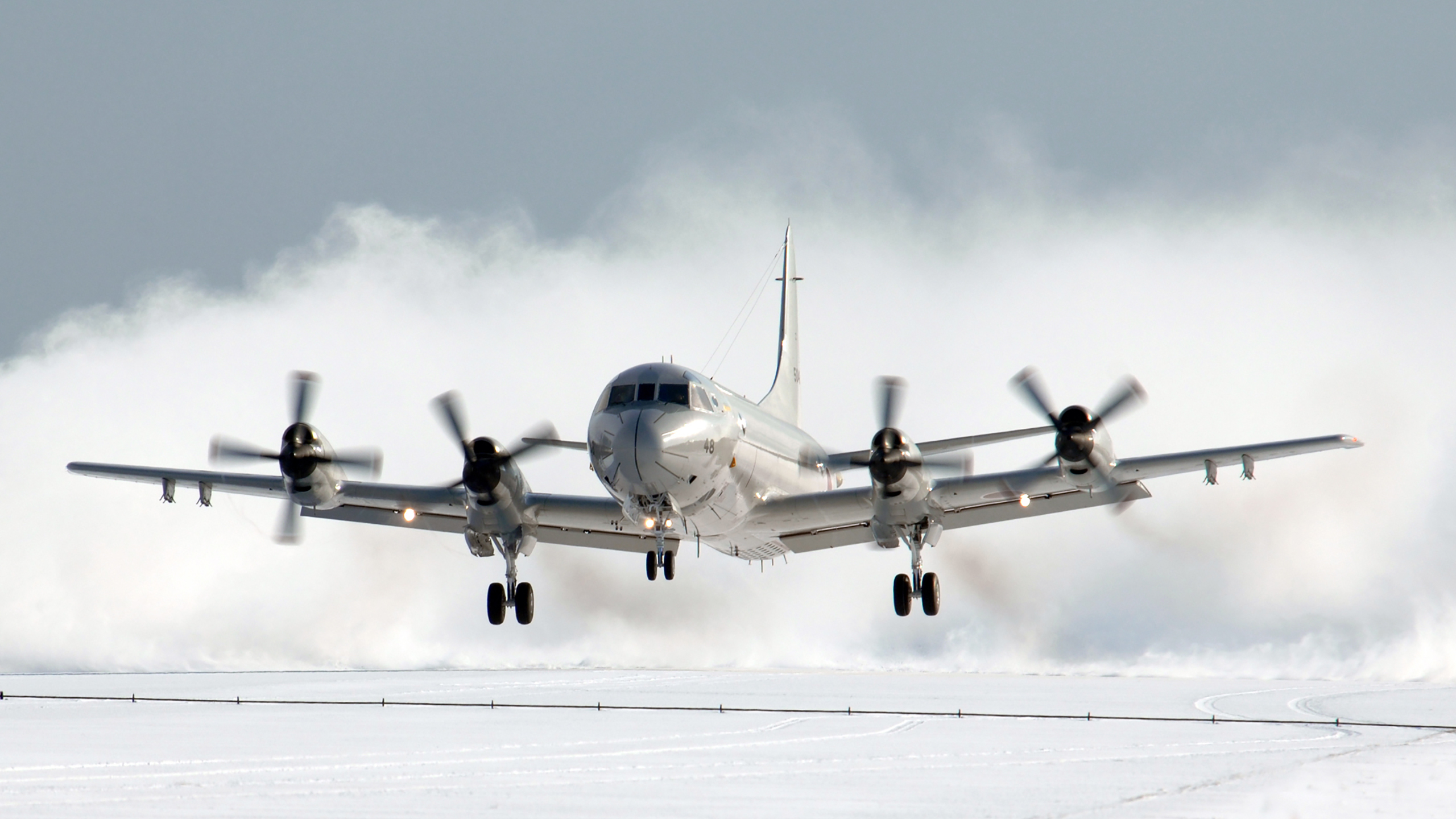 JMSDF HachinoheBase P-3C take off